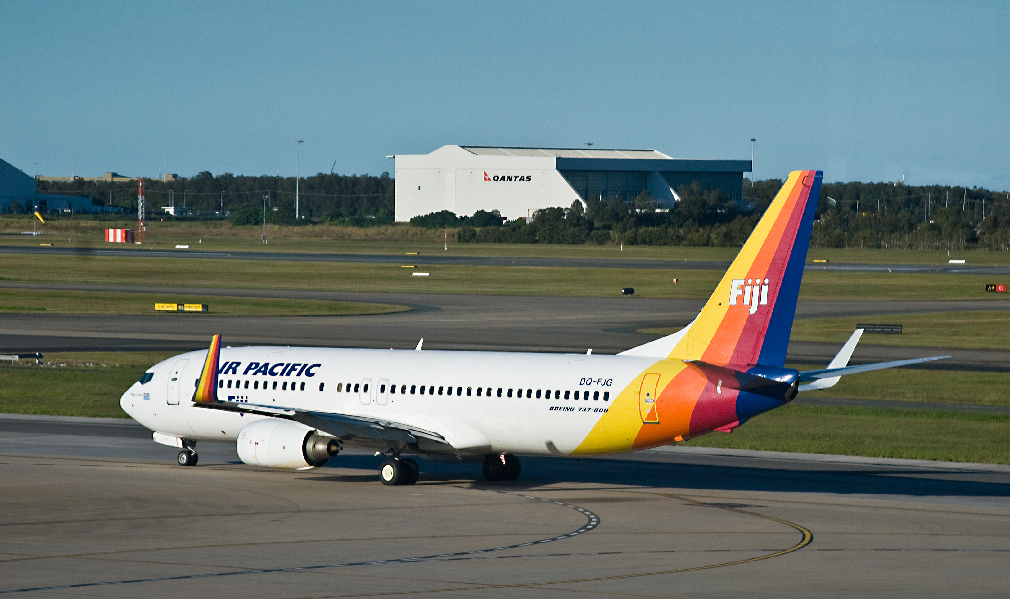 Air Pacific Boeing 737-800, Brisbane, June 2009